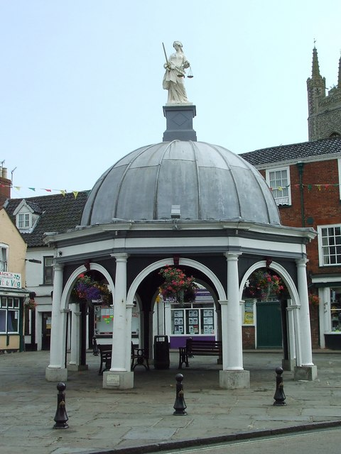 A market cross in Bungay, Suffolk, England. The structure is a Grade I listed building.